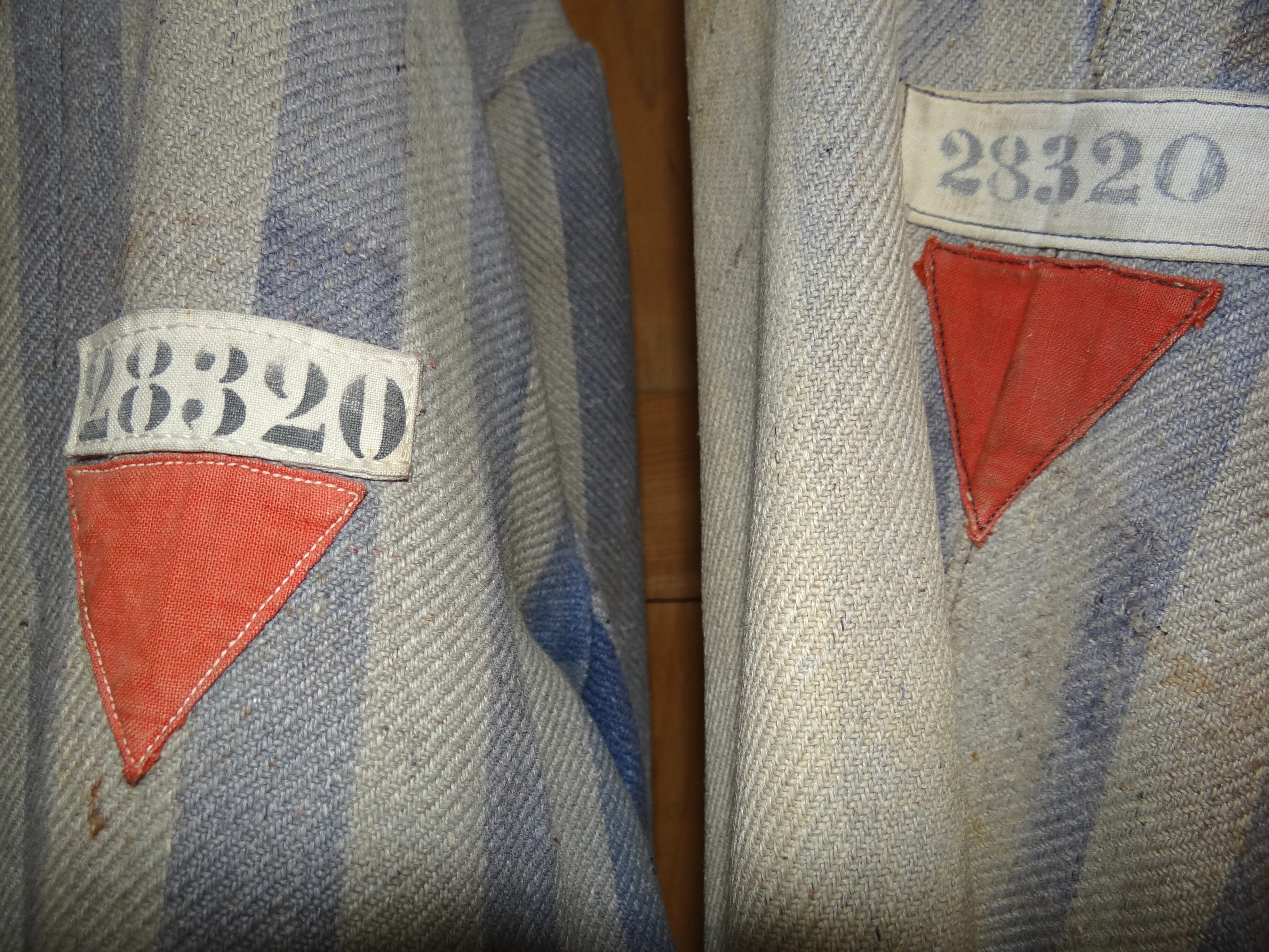 Prisoners' Uniforms with Red Triangles of Political Prisoners - Museum Exhibit - Dachau Concentration Camp Site - Dachau - Bavaria - Germany